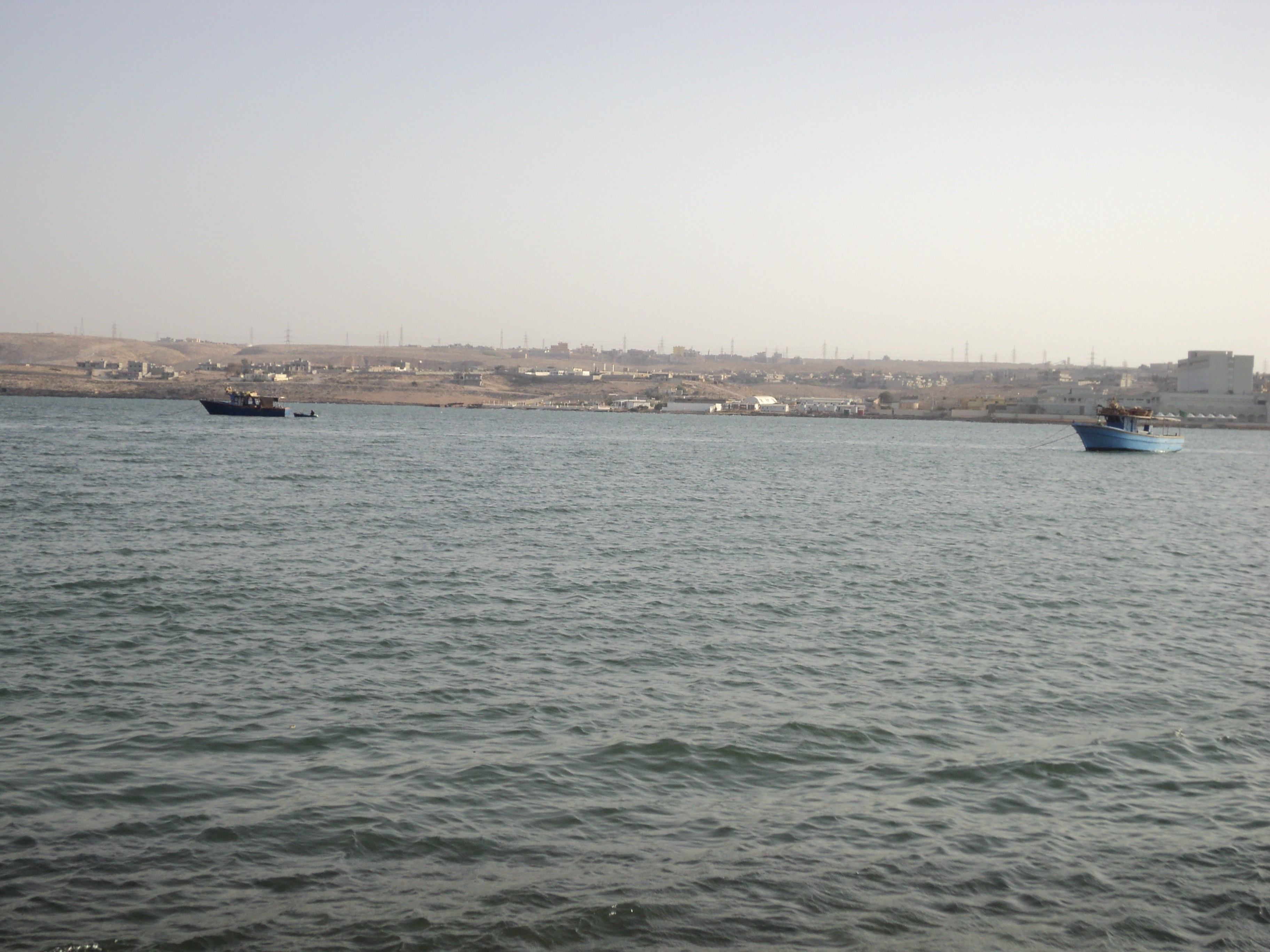 Port of the Libyan city of Tobruk.